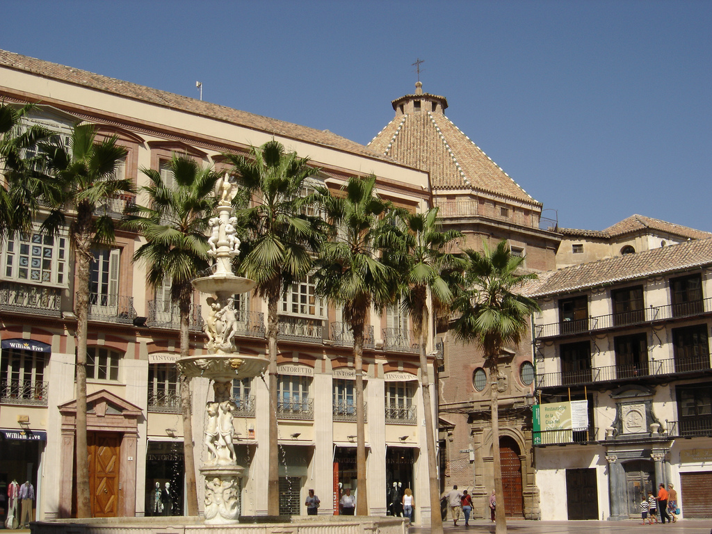 Constitution Square, Málaga, Spain